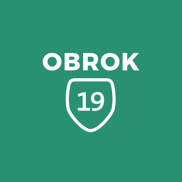 The logo of Obrok (festival)